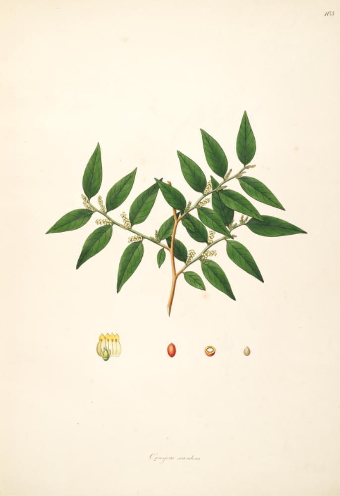 Illustration of Cansjera scandens (Orig: Cansiera scandens)